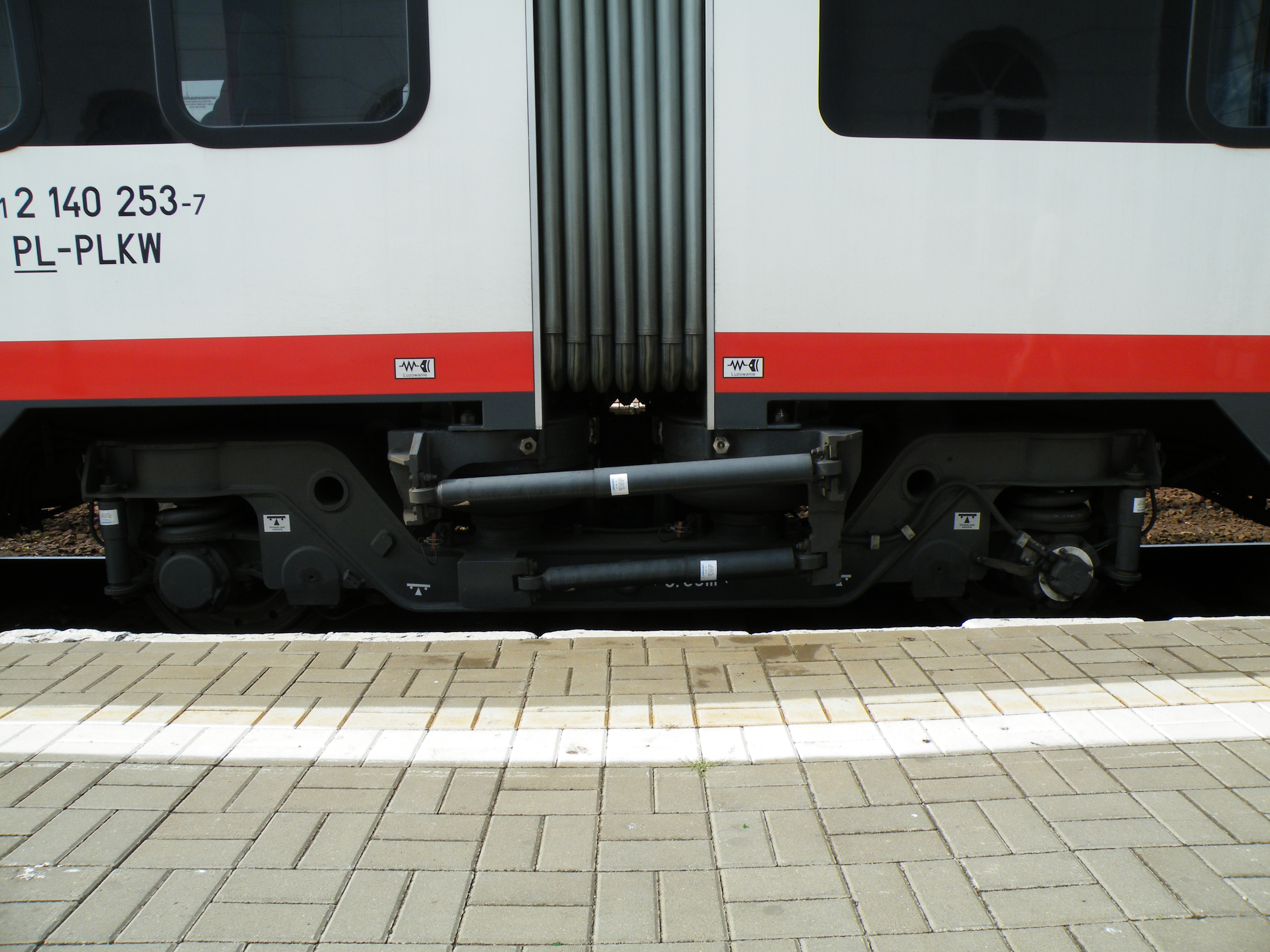 Jacobs bogie in PESA ELF EMU